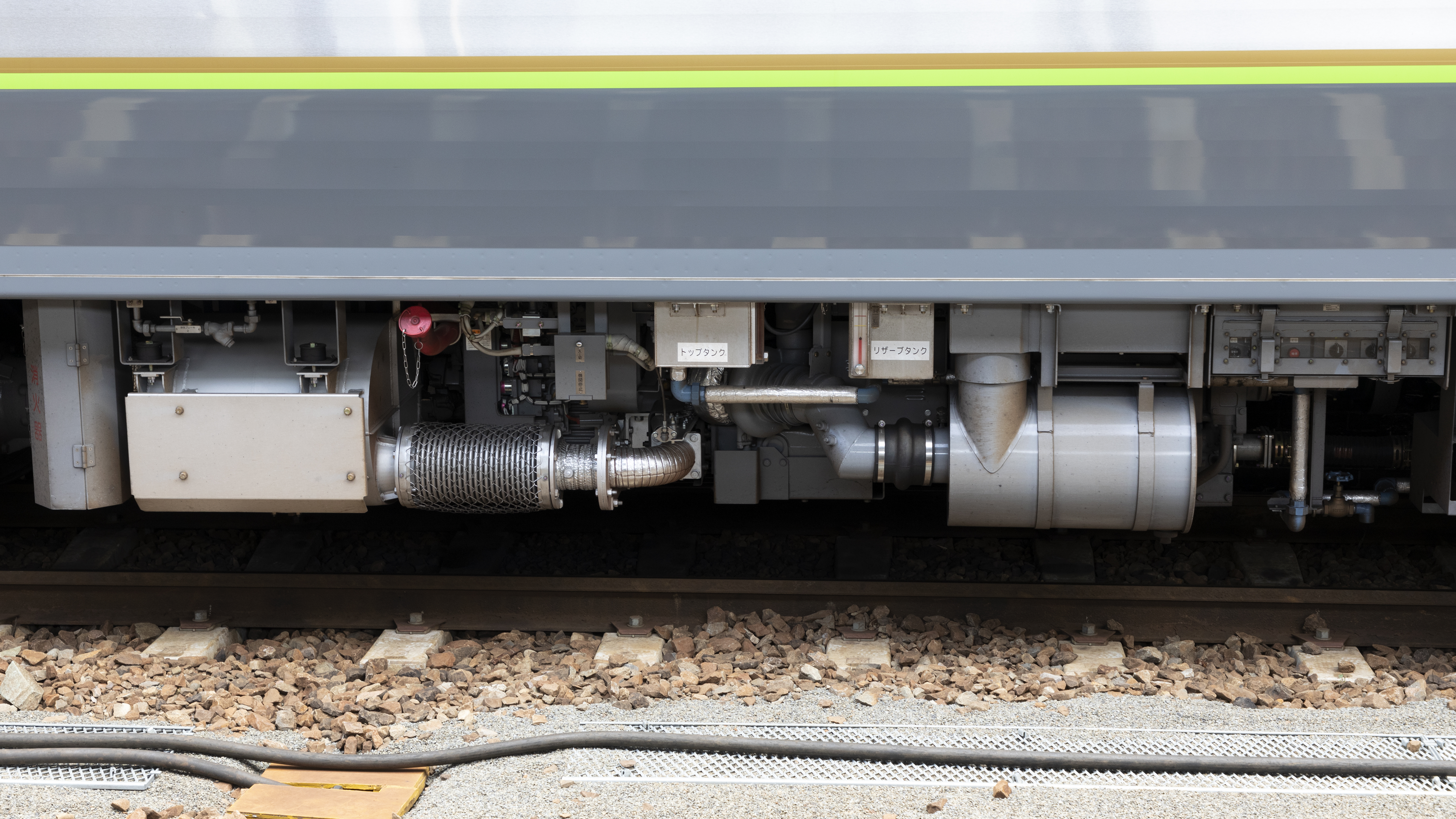 An underfloor SA6D140HE-2 diesel engine of a JR Shikoku 2700 series diesel multiple unit train